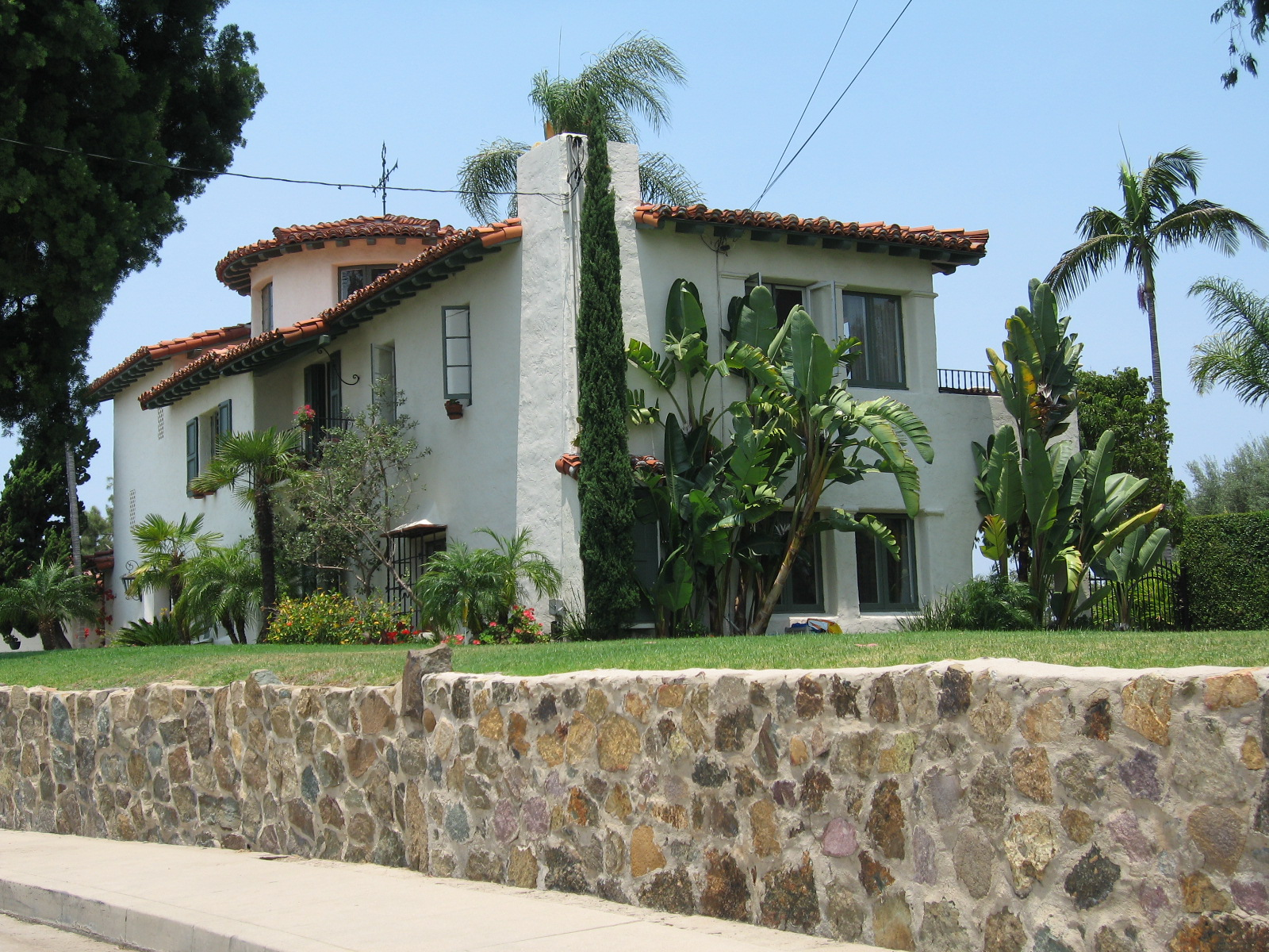 Picture of Beth Sarim: House of the Princes, built to be inhabited by the expected resurrected Old Testament Patriarchs and used as a winter home for Judge Joseph F. Rutherford, Watchtower president (1917-1942), who gave the religious group the name "Jehovah's Witnesses." The house was built in 1929 and sold by the Watchtower Society in 1948. The house has been designated Historical Landmark number 474 by the City of San Diego.